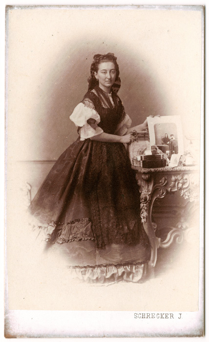 Ilona Batthyány, wife of Béla Keglevich. She holds in her hand the photograph of her mother, Antónia Zichy. Pest, february 1864. Photograph taken by Ignác Schrecker (Hungarian National Museum)